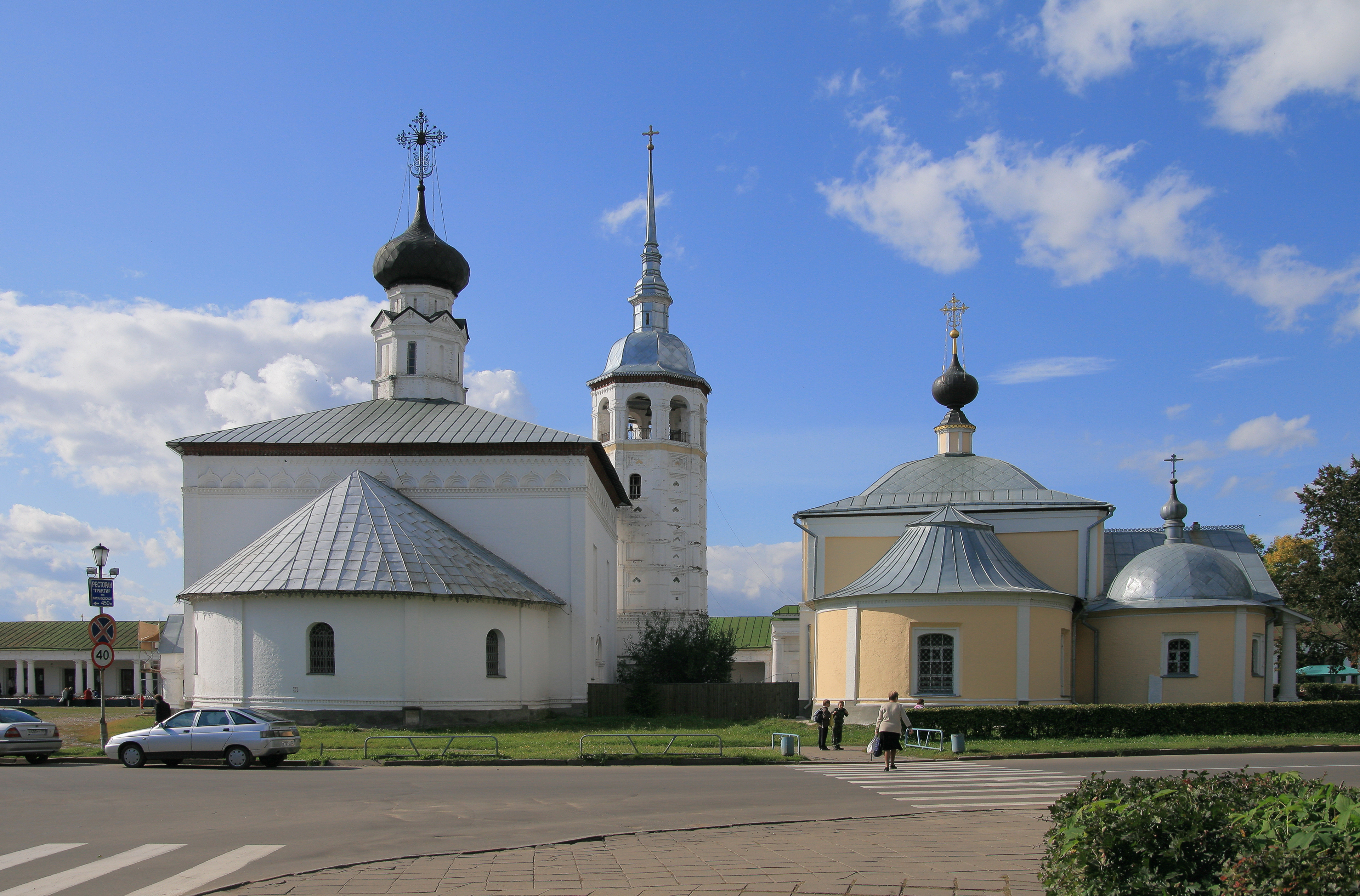 Summery Church of the Resurrection of Christ (1732) and Wintry Church of the Theotokos of Kazan (1739), Suzdal